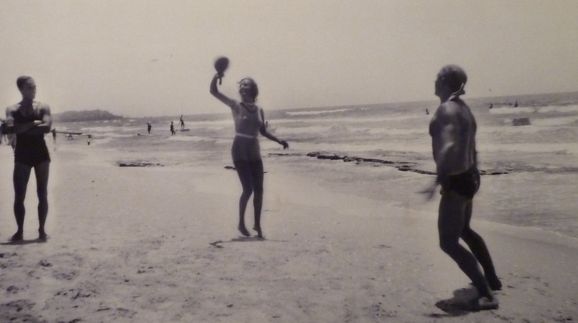 Images by Shimon Korbman, Shalom Meir Tower, Tel Aviv